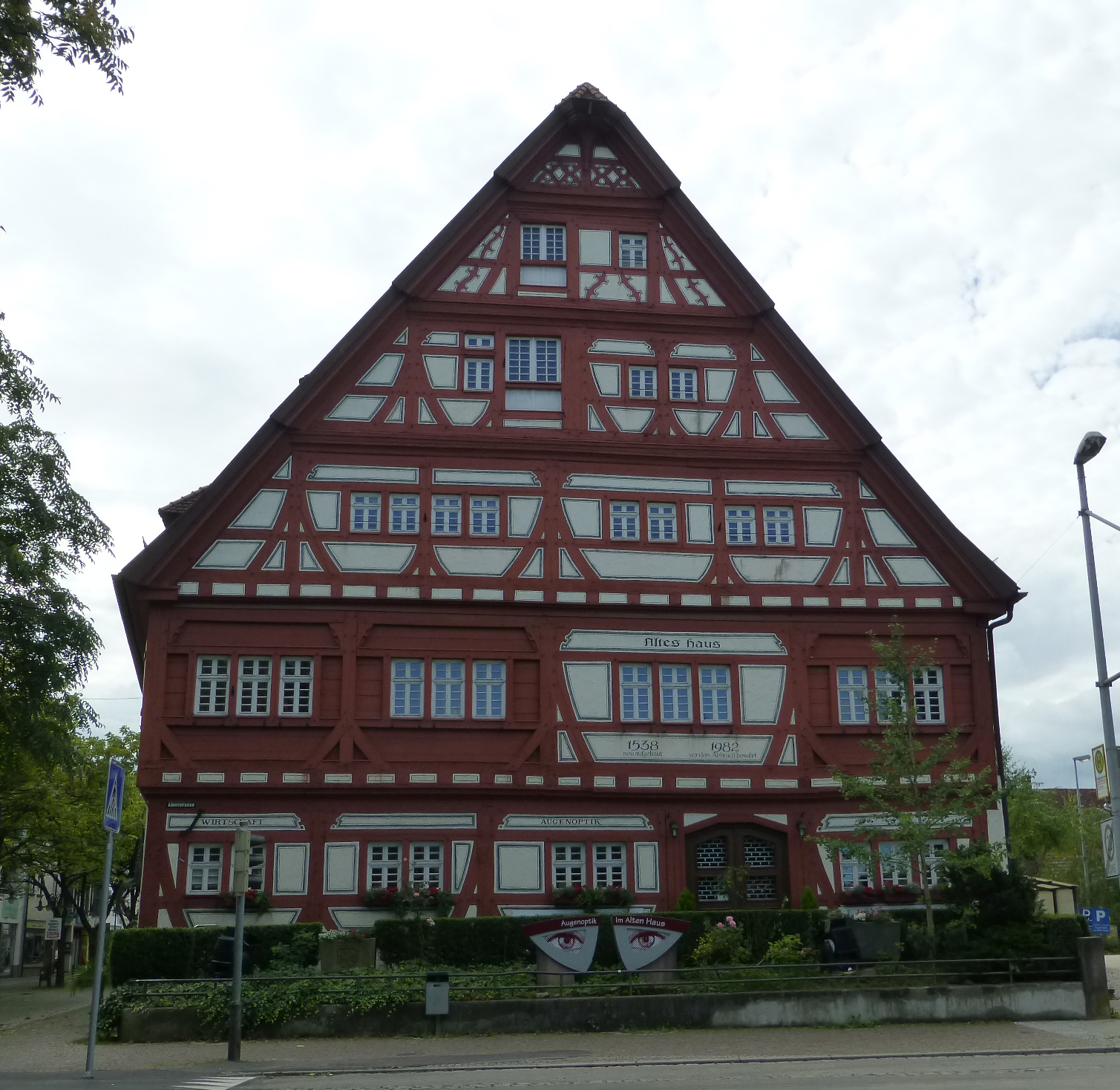 Timber framed house, dated 1538, dark red painted, Kirchheim unter Teck, Wurttemberg.